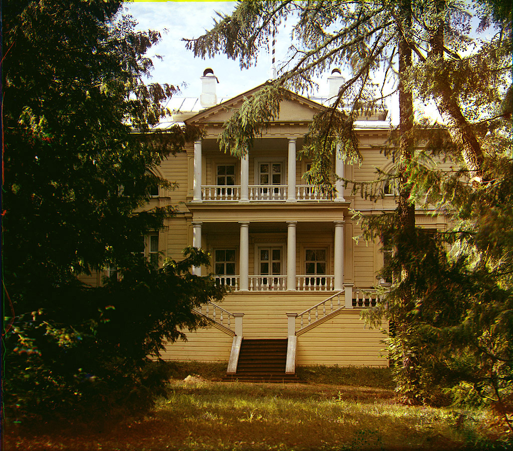 Borodino palace (southern facade). 1911, S. M. Prokudin-Gorskiy.